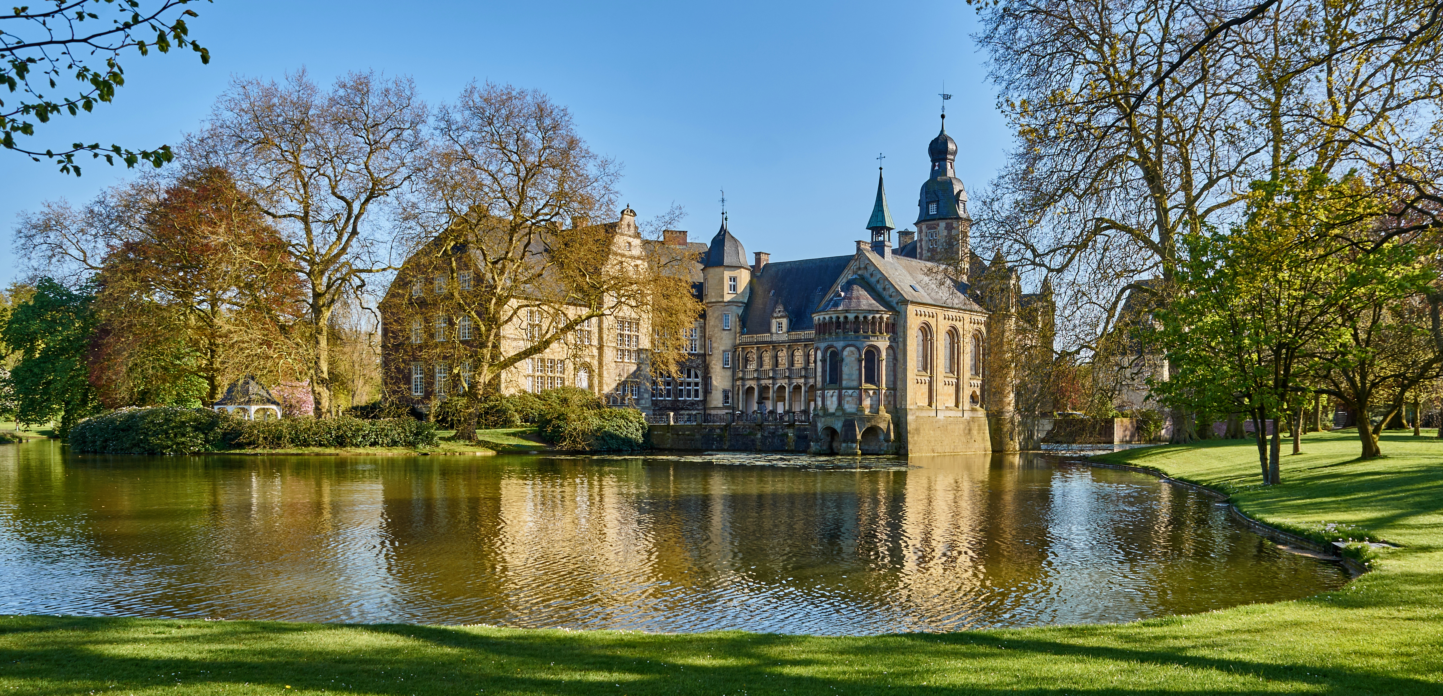 Darfeld Castle in Rosendahl, district of Coesfeld, North Rhine-Westphalia, Germany. This is a photograph of an architectural monument.